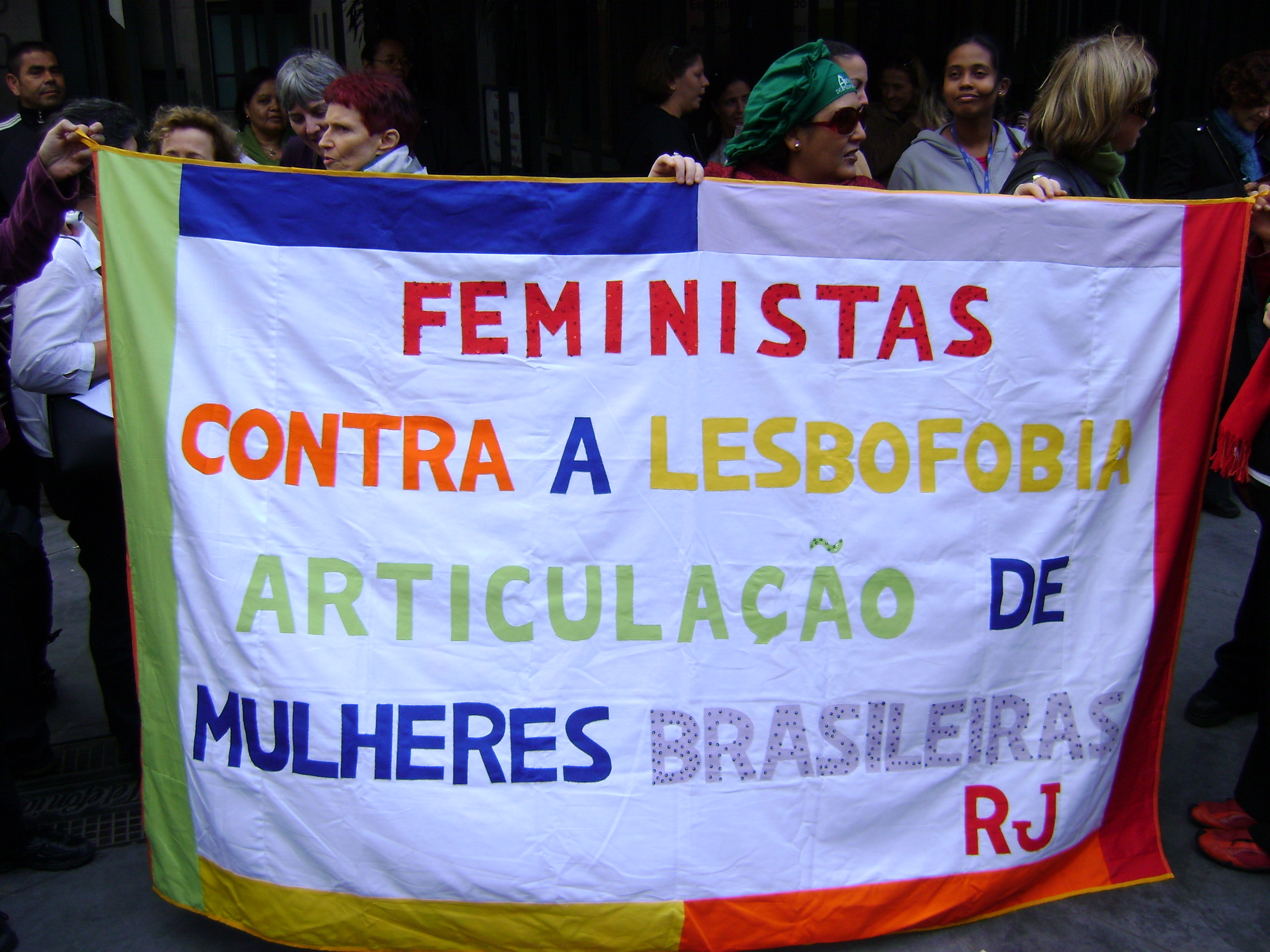 2009 Walk Lesbian in São Paulo